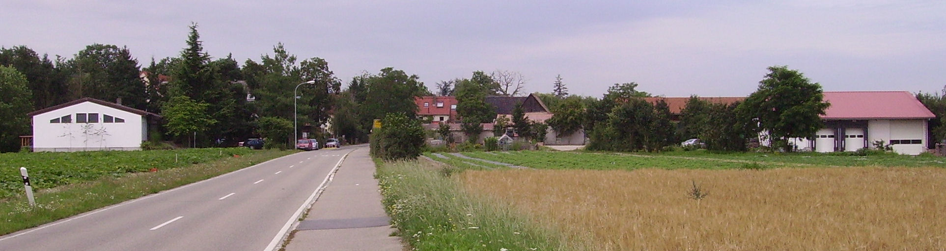 view of Limburgerhof, Germany